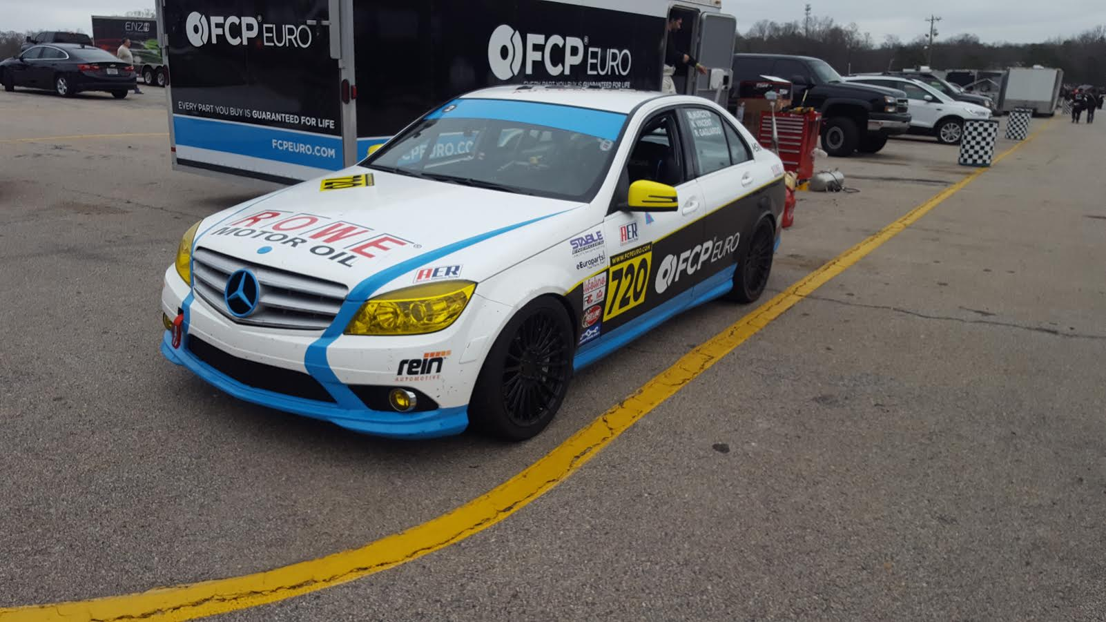 FCP Euro C300 at Road Atlanta